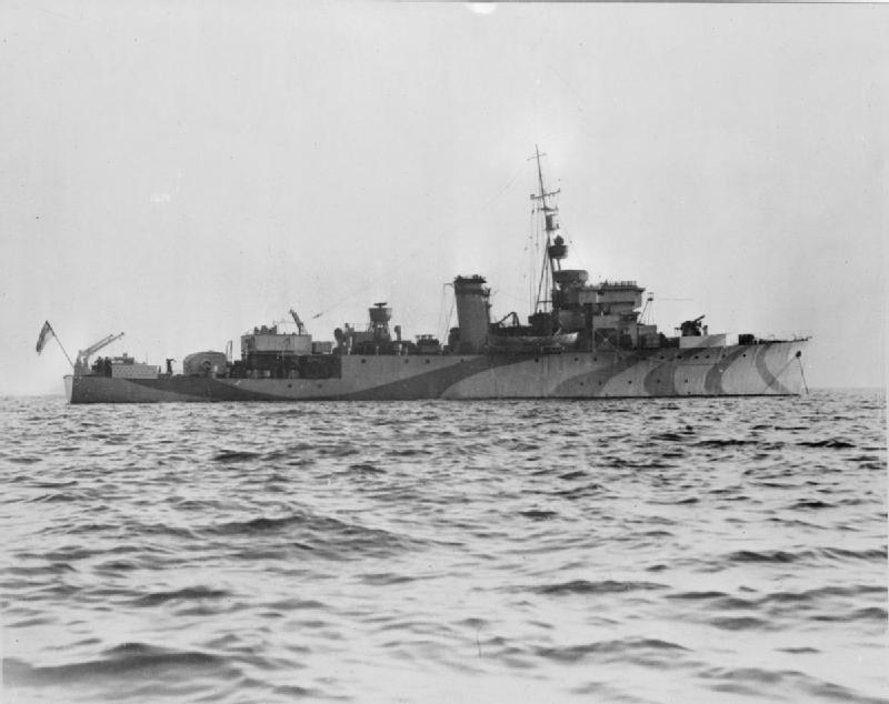 Photograph of British Algerine class minesweeper HMS Hound.